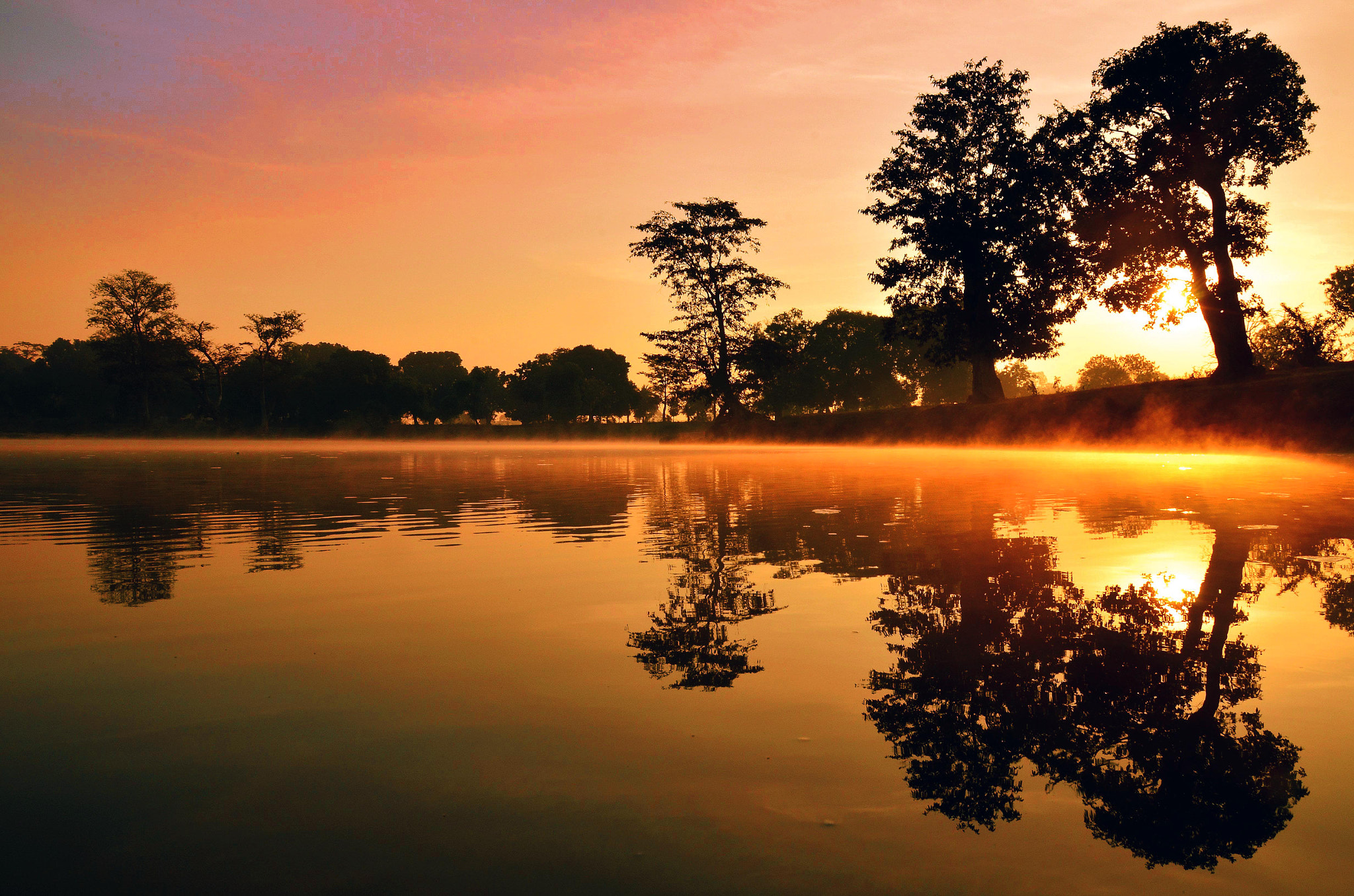 500px provided description: An early morning shot Jagdalpur, India [#Landscape ,#Trees ,#Sunrise ,#India ,#Sun ,#River ,#Golden ,#Vapour]